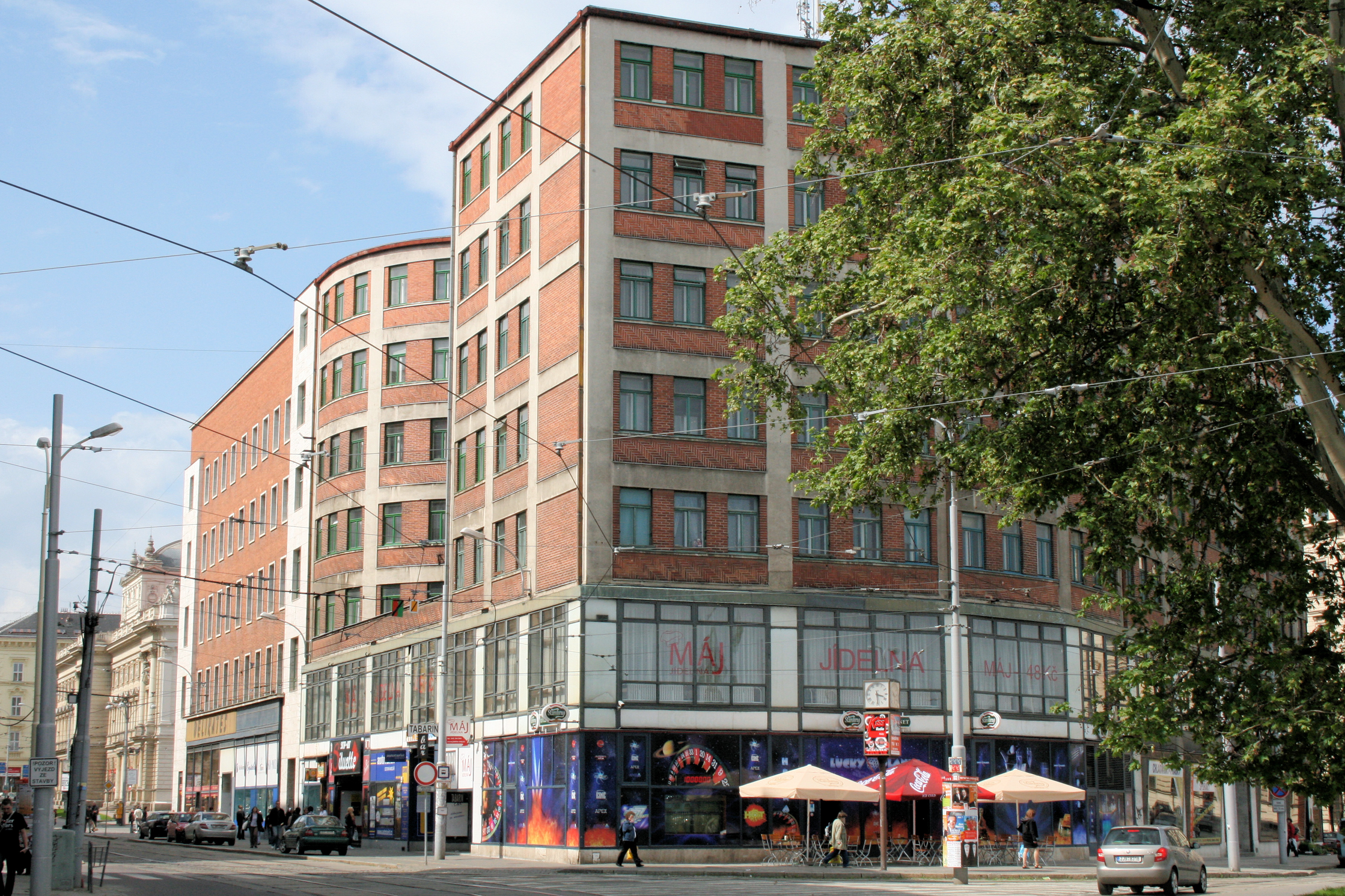 Morava Palace, Brno, Czech Republic. Česky: Palác Morava, Divadelní 3, Brno. Funkcionalistická budova Arnošta Wiesnera z let 1926-29. Pohled z Benešovy ul. od starého autobusového nádraží.